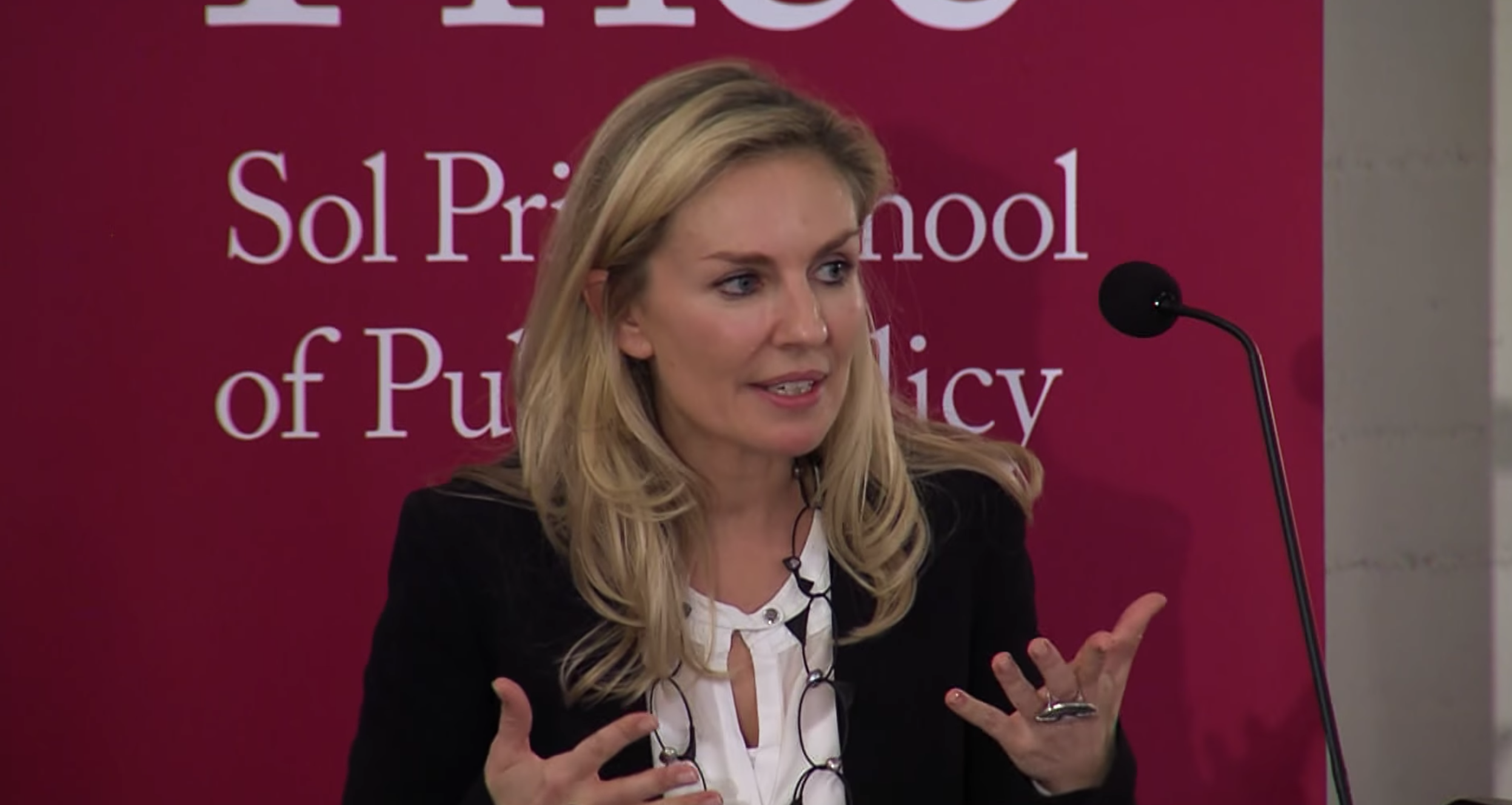 Sasha Havlicek 2018